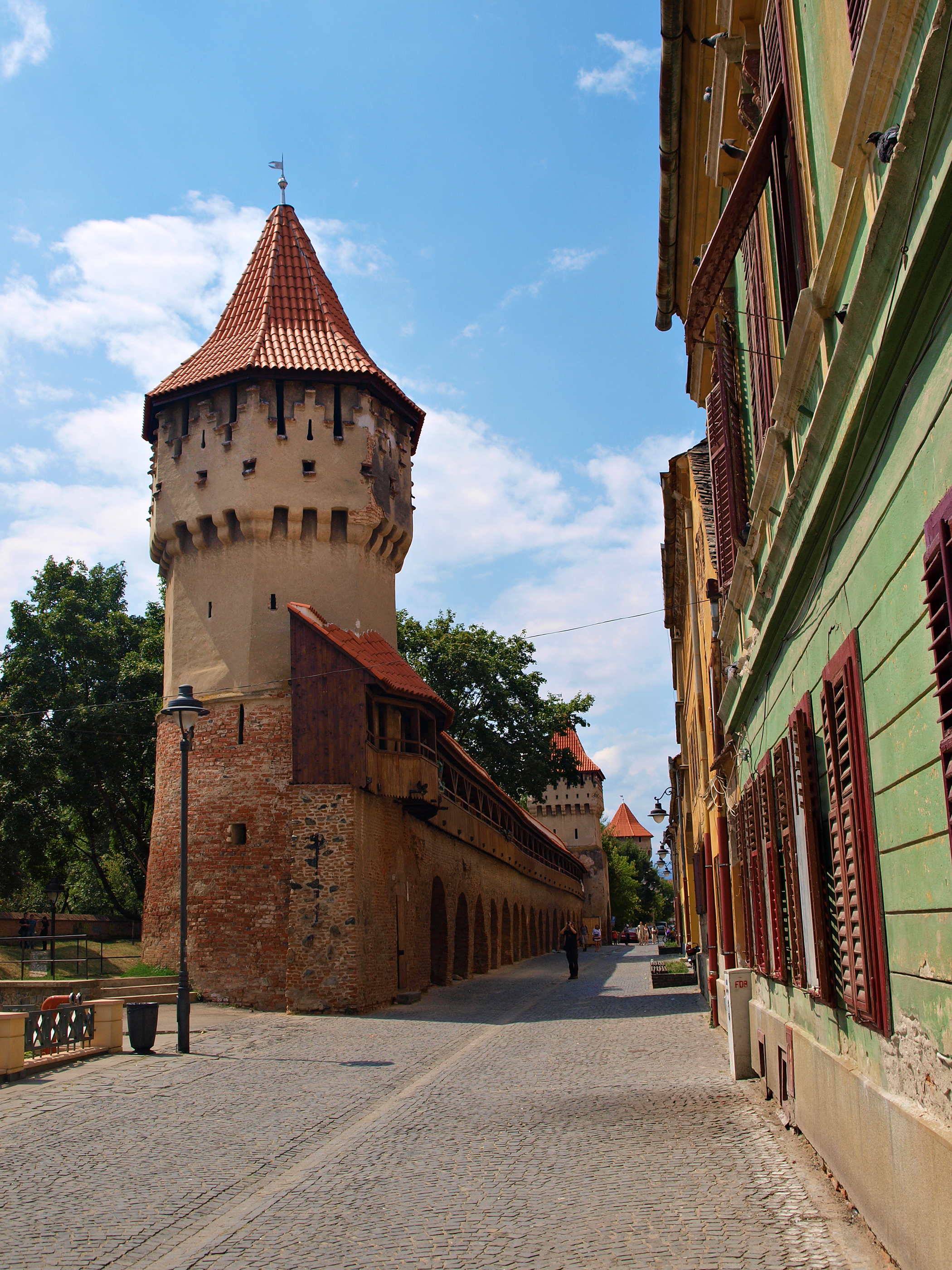 Fortifications of Sibiu, Transylvania, Romania